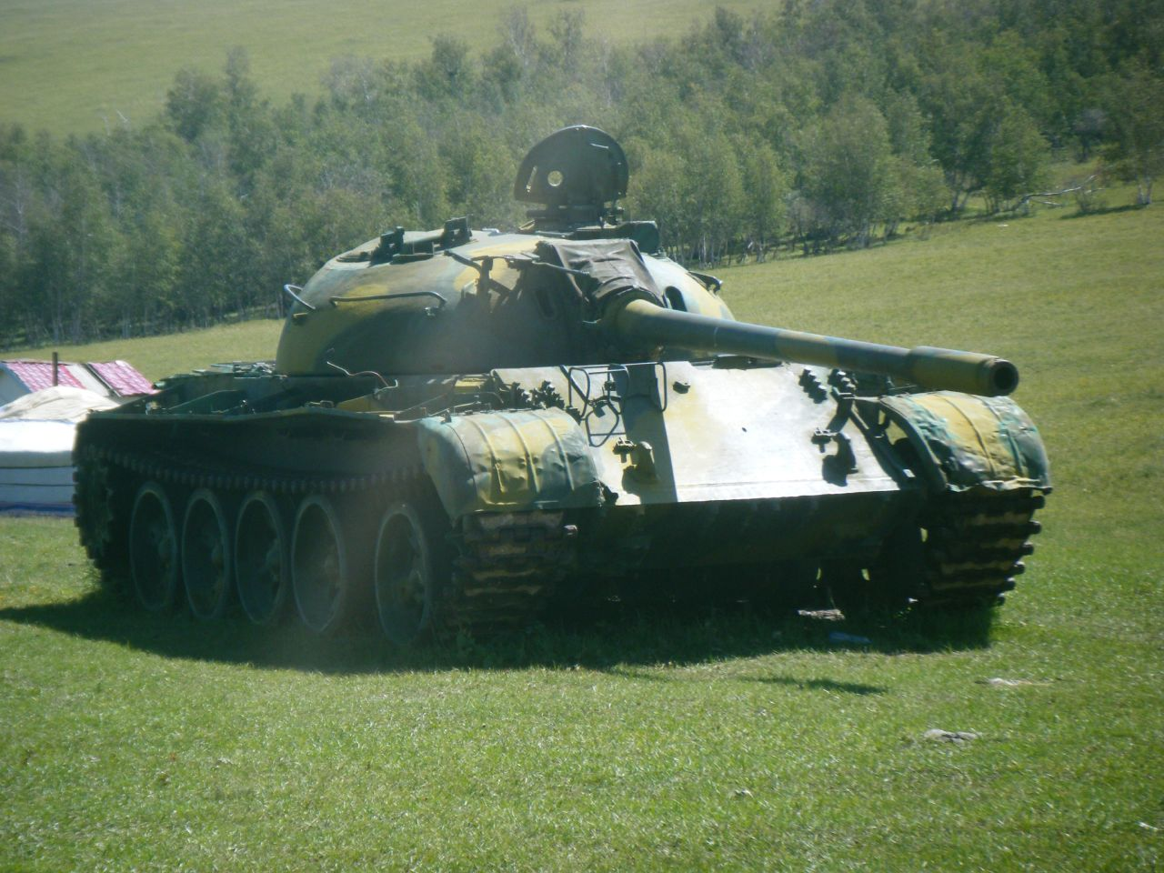 Mongolian T-55 near or in Ulan Bator, Mongolia.